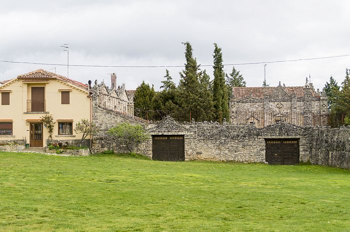 Casa singular de piedra